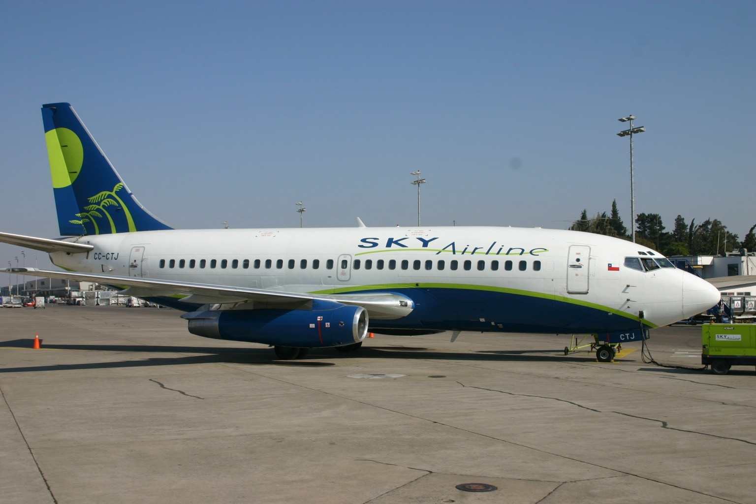 At Santiago